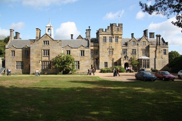 Scotney Castle Neo-Tudor entrance front to new Scotney Castle by Anthony Salvin 1837-1844